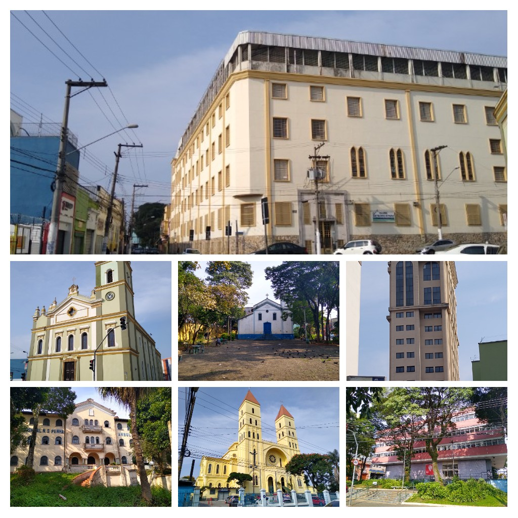 Vários pontos do bairro da Penha